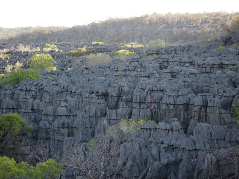 Ankarana Reserve tsingy at sunset in Madagascar 2014